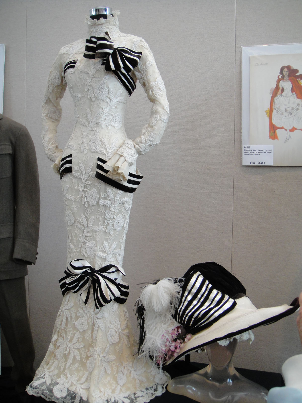 The iconic Ascot dress of Audrey Hepburn in My Fair Lady (1964).